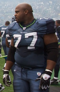 Seattle Seahawks offensive guard Floyd Womack on the sidelines in the game against the Philadelphia Eagles on November 2, 2008 at Qwest Field.